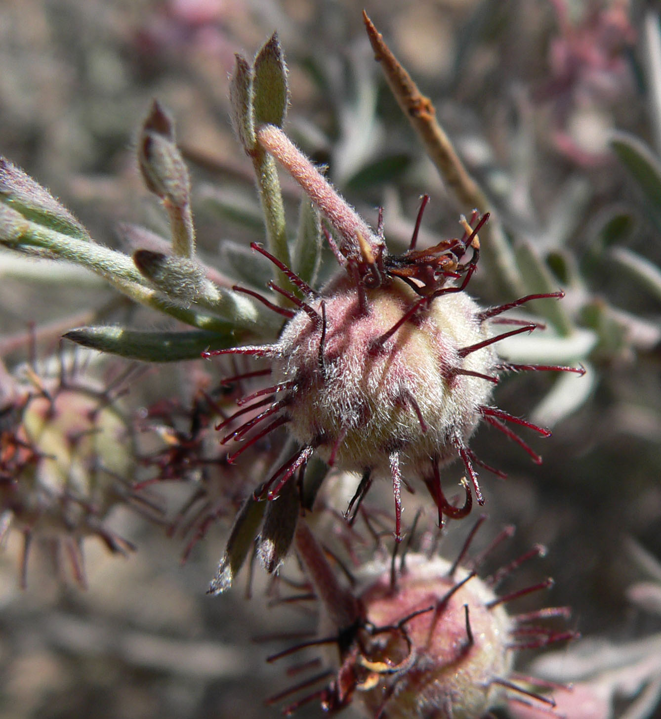 Krameria grayi in a wash by the New Gold Butte Road about four miles northeast of the Virgin River's drainage into Lake Mead, southern Nevada